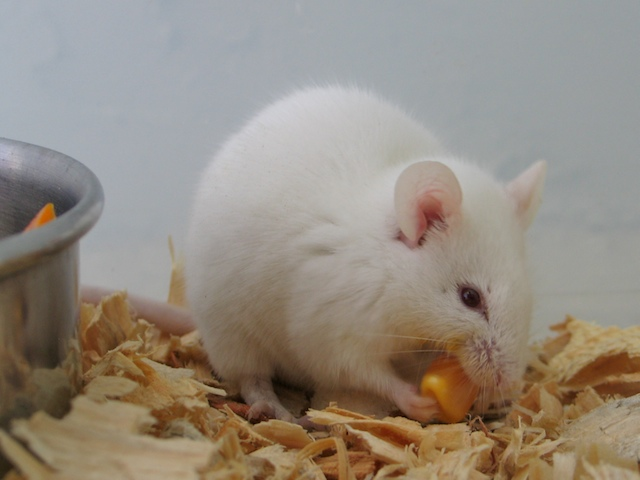 Albino Mouse eating a piece of corn